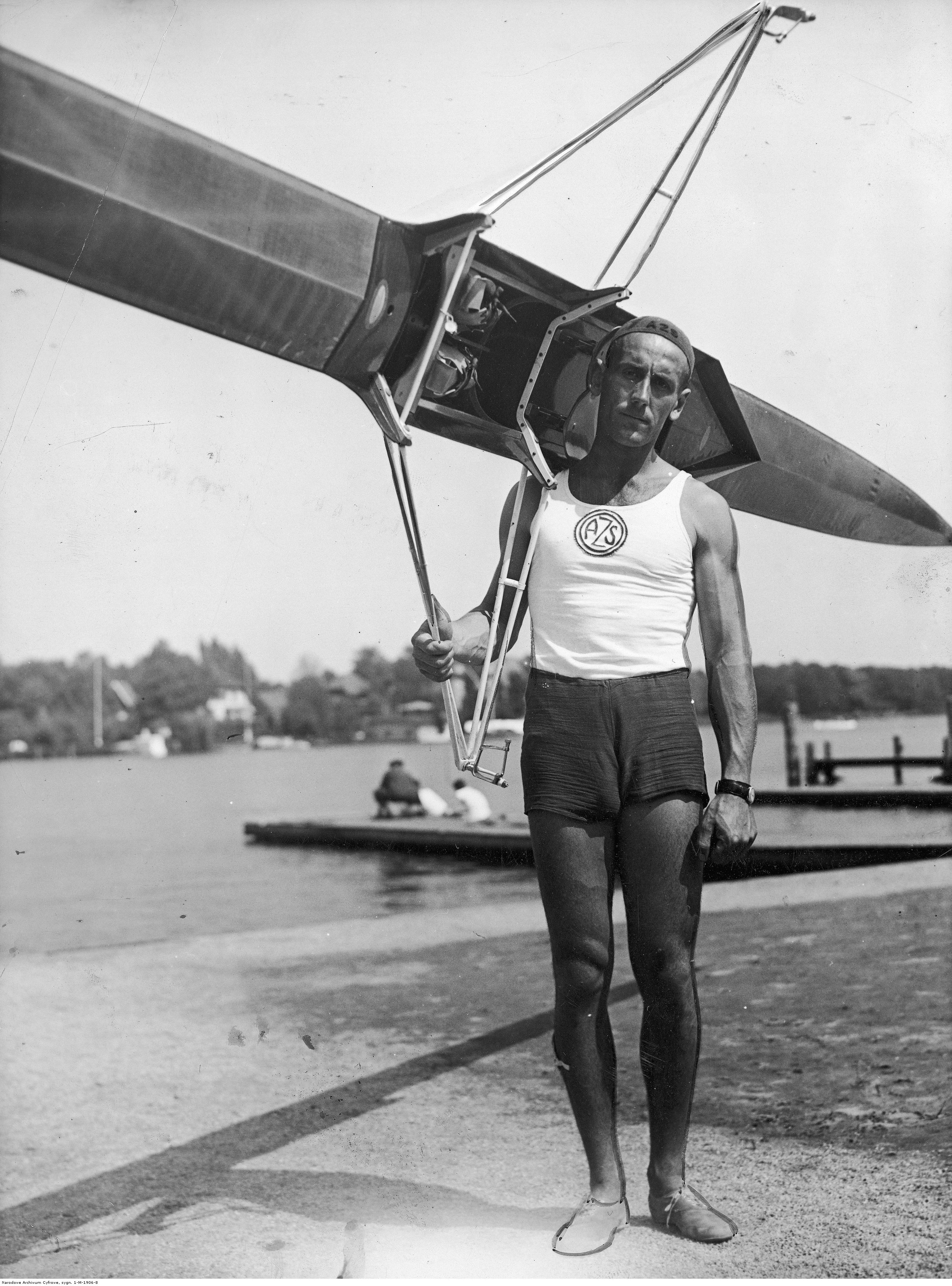 Roger Verey after becoming European Champion